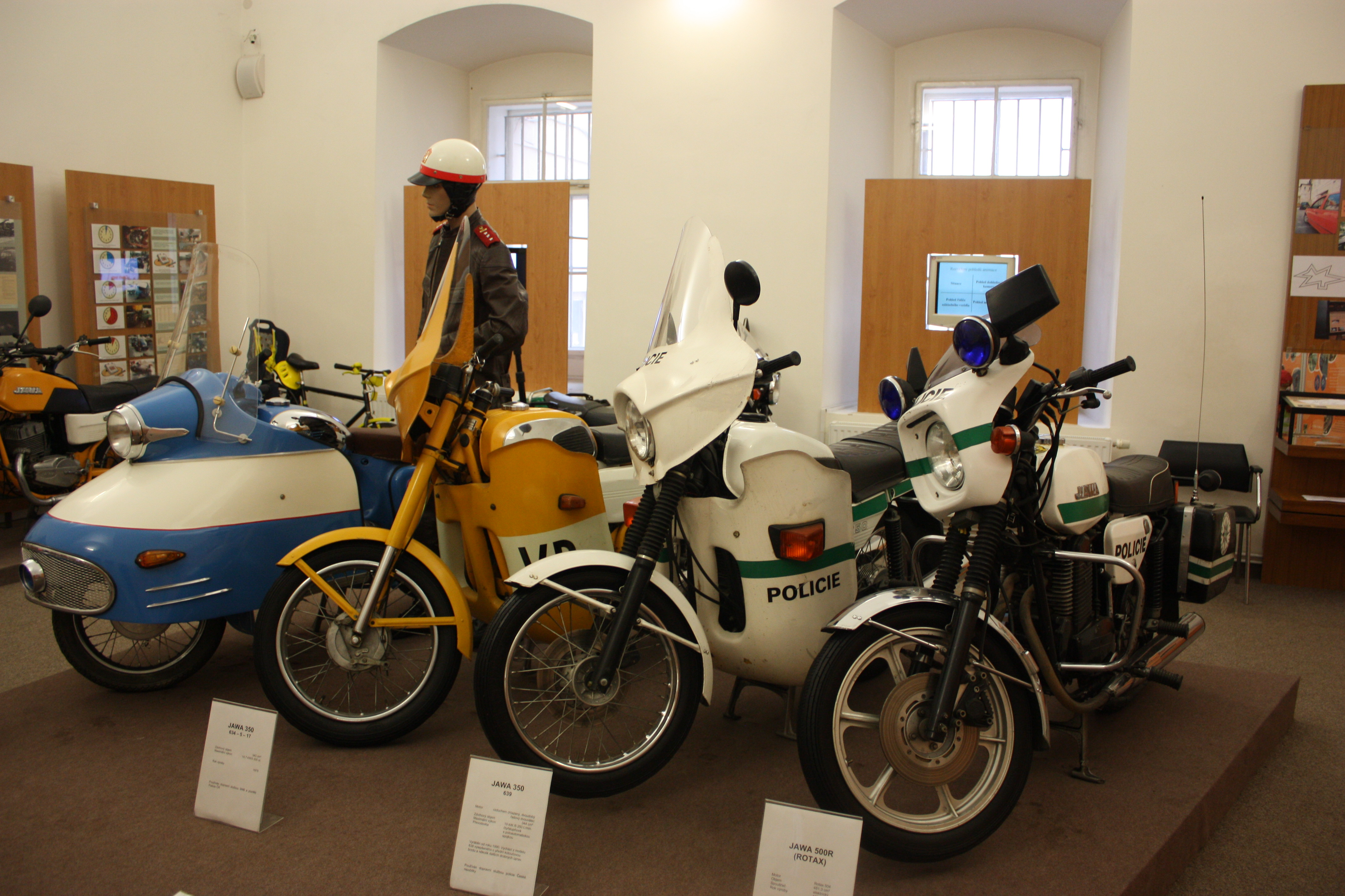 Historical police motocycles in the Museum of Police of the Czech Republic